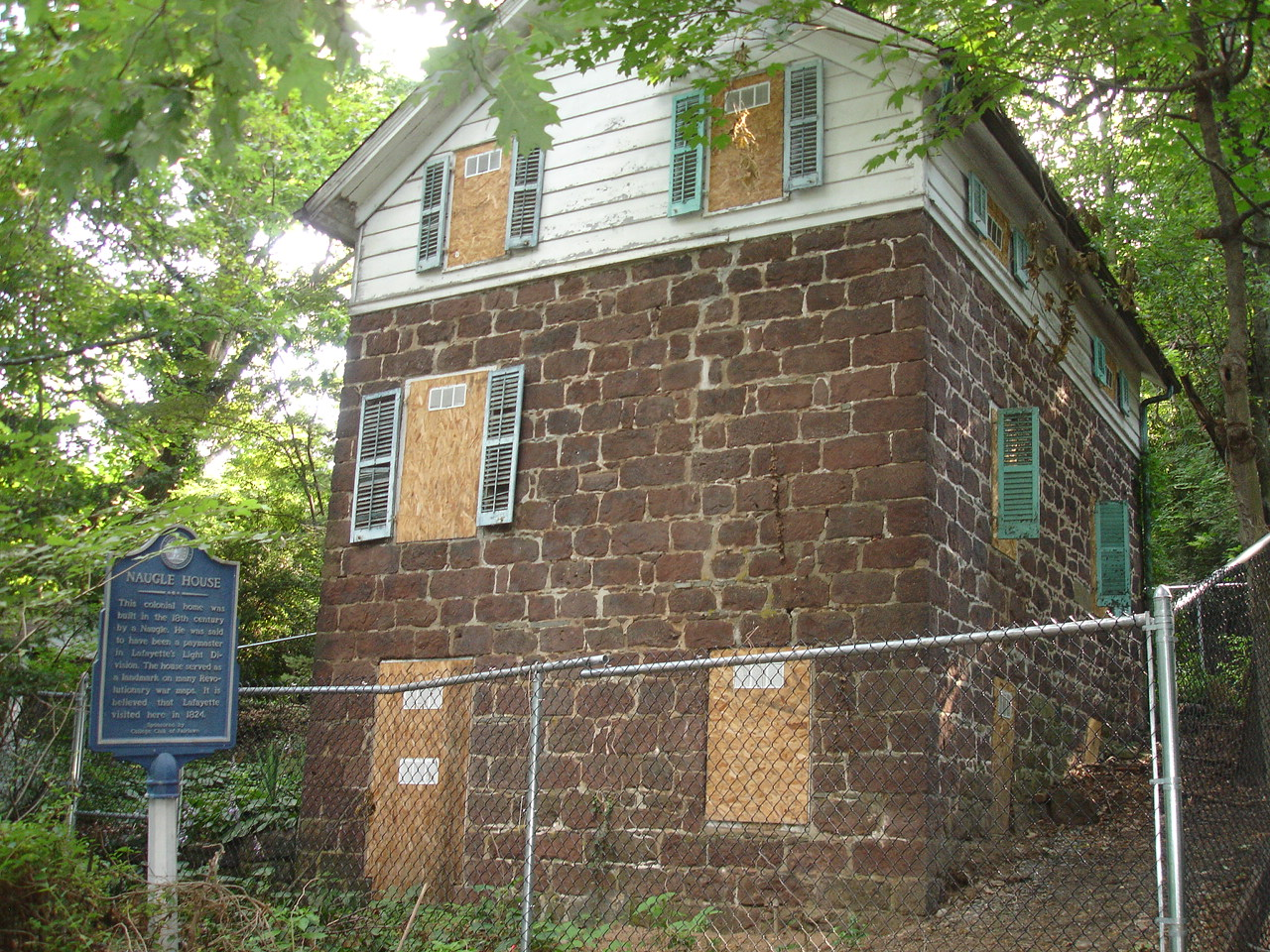 I took this photo of the Naugle House myself on July 10, 2011.